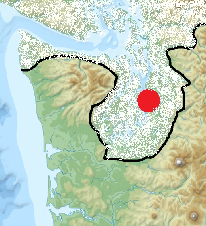 Border of the ice sheet in the last glaciation. The ice sheet was above the black line. The red spot is the location of Seattle.